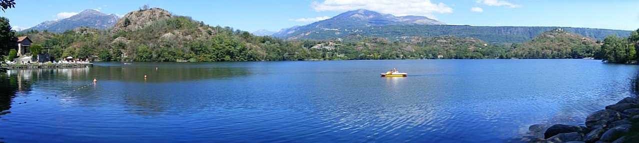 Lake Sirio as viewed fron sud-east (TO, Italy); in the background Mombarone and Serra